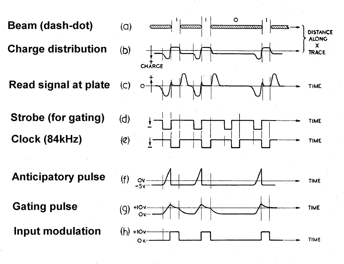 Timing signals inside Williams tube